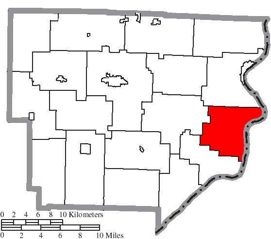 Map of the municipal and township boundaries of Monroe County, Ohio, United States, as of the 2000 census, with the location of Ohio Township highlighted. Township borders are shown only in unincorporated areas in order to differentiate incorporated and unincorporated areas more clearly.